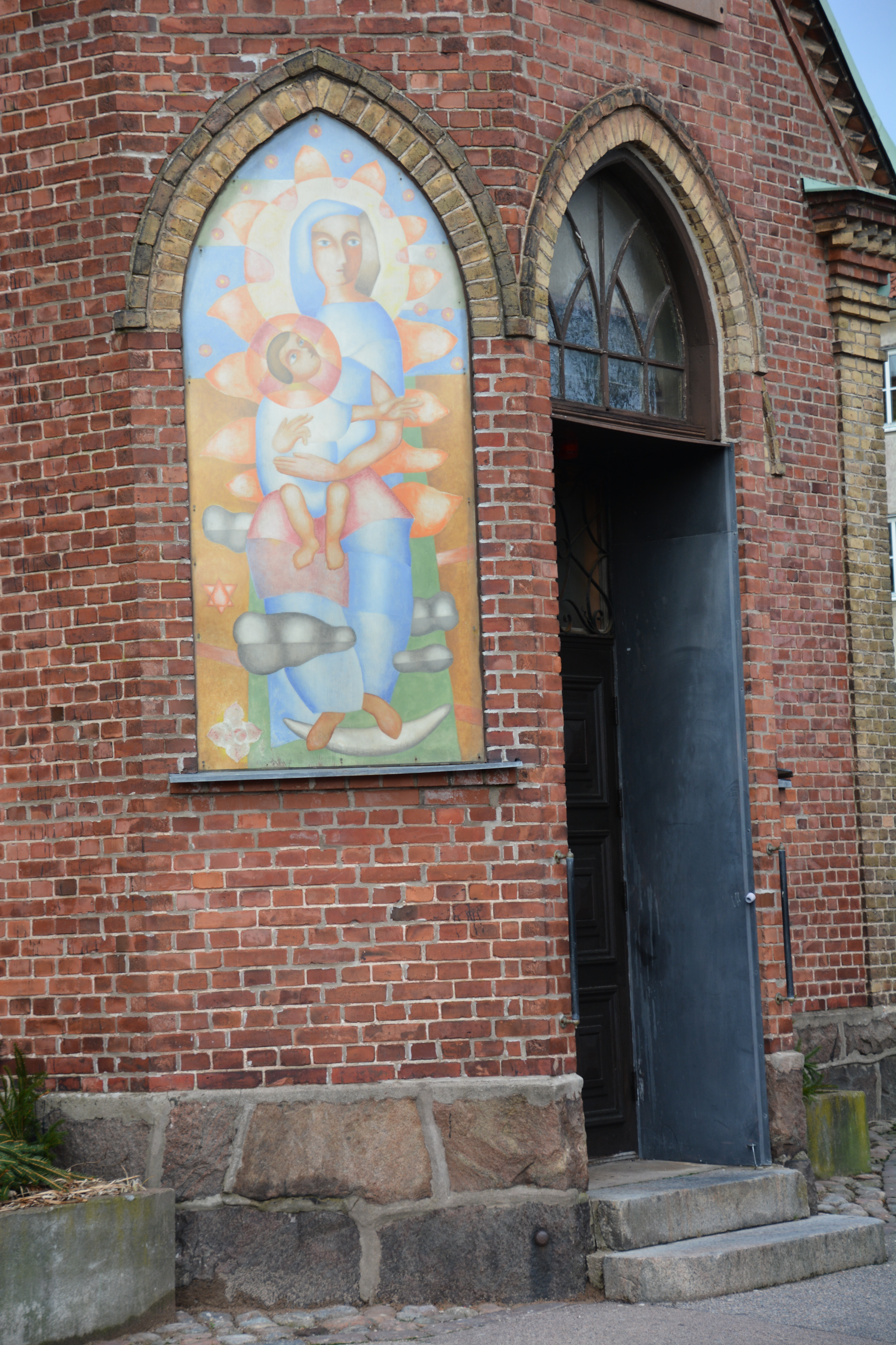 Målat fält av Erik Olson, Trefaldighetskyrkan i Halmstad